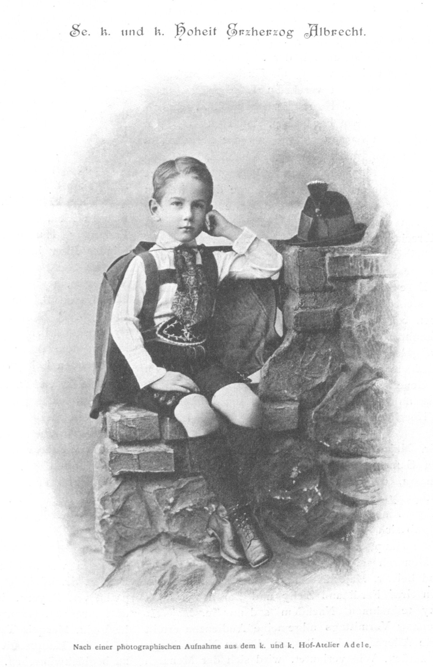 Photo of a 5-year-old Archduke Albrecht Franz, Duke of Teschen (1897-1955), member of the House of Habsburg.